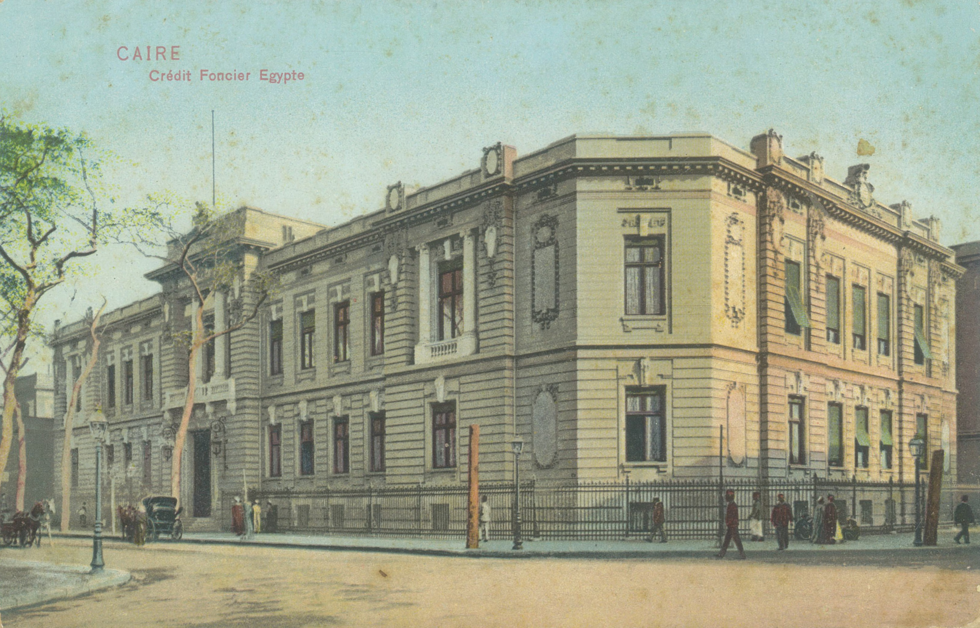 The building of the Crédit Foncier Égyptien. Postcard c. 1900.